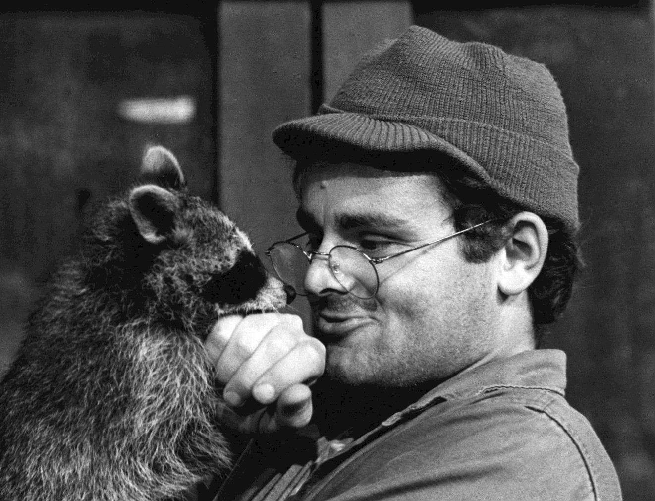 Photo of Gary Burghoff as Radar from the television program M*A*S*H. He's pictured with one of the many animals of his menagerie.